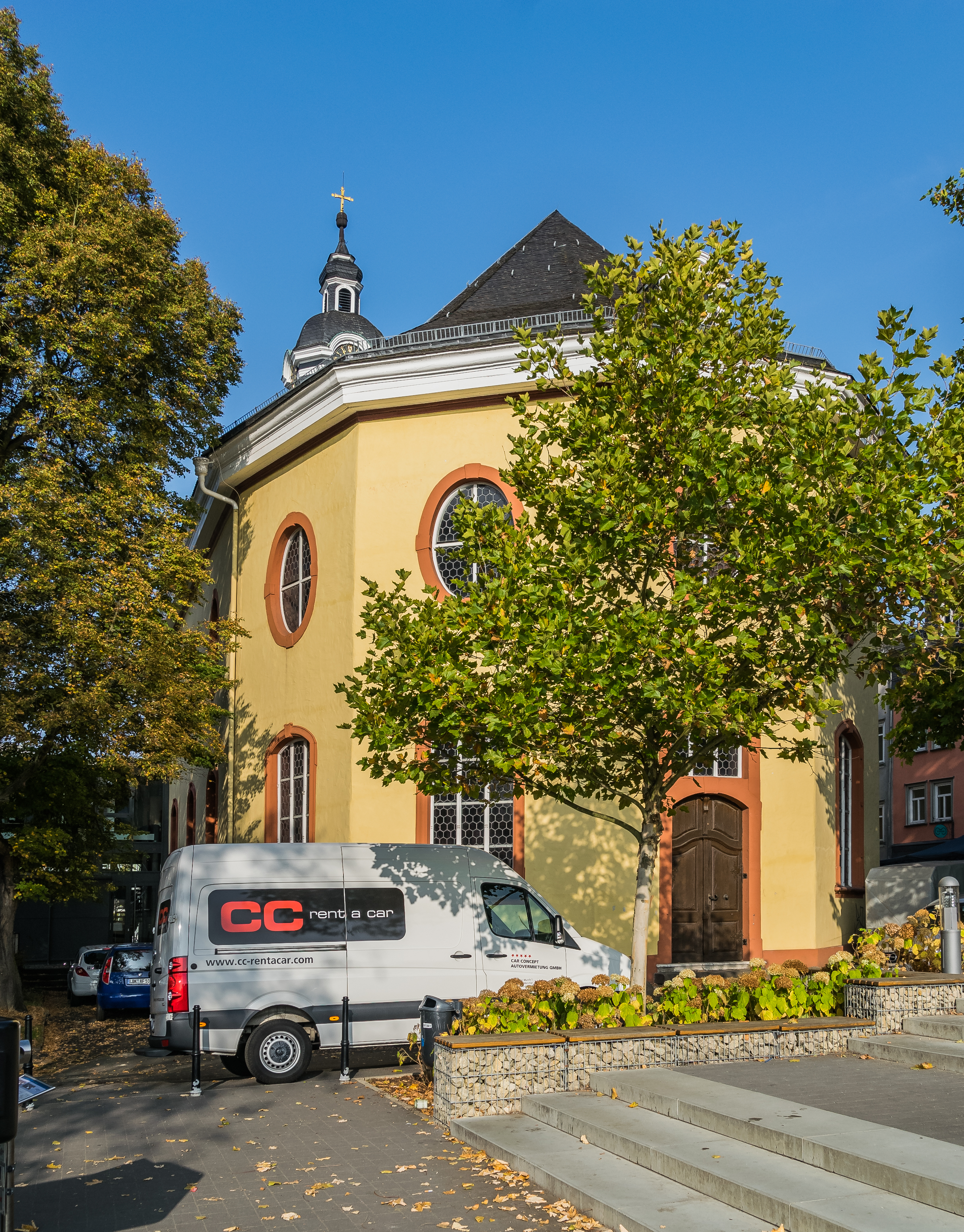 Hospitalkirche in Wetzlar, Hesse, Germany